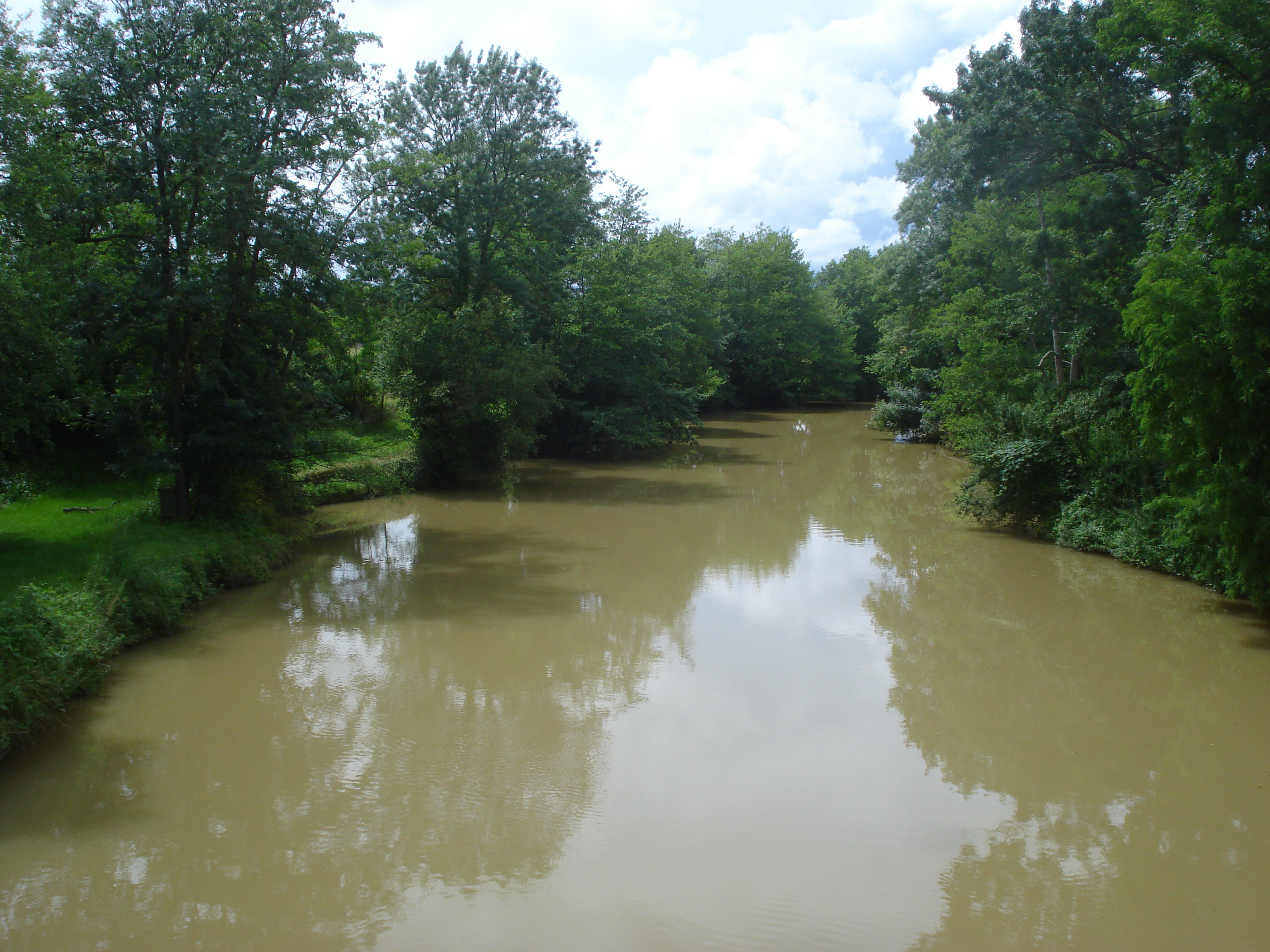 River Dropt at Monségur (Gironde)